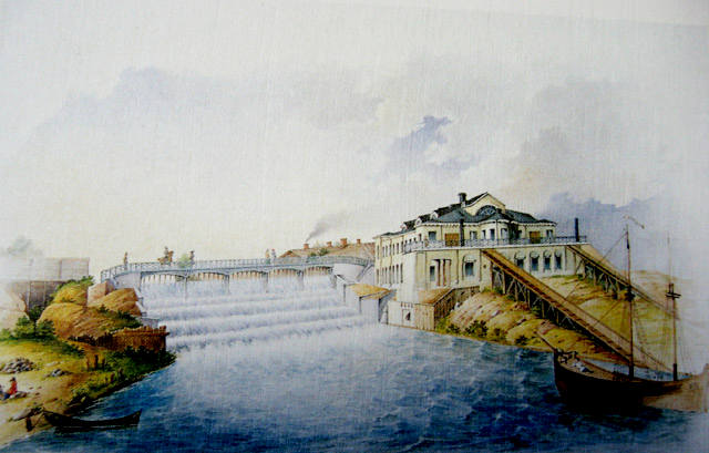 The dam that completes the Semicircular canal (watercolor 1835). Kolpino.